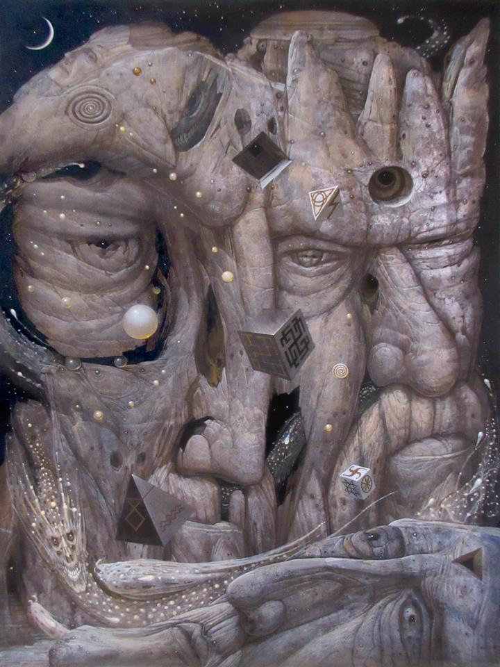 forgotten Gods